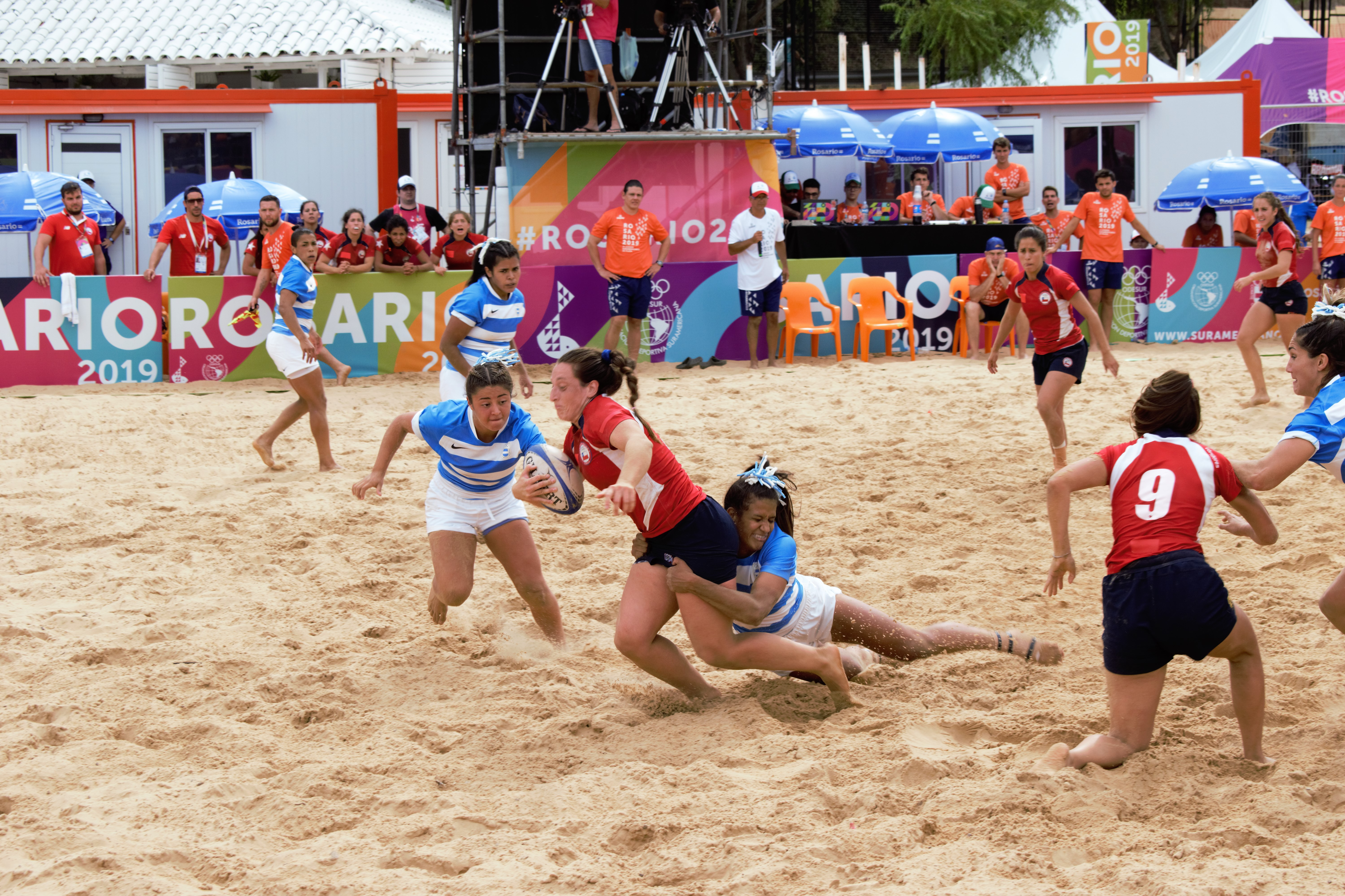 Beach Rugby at the 2019 South American Beach Games. Gold Medal Match, Argentina vs Chile.